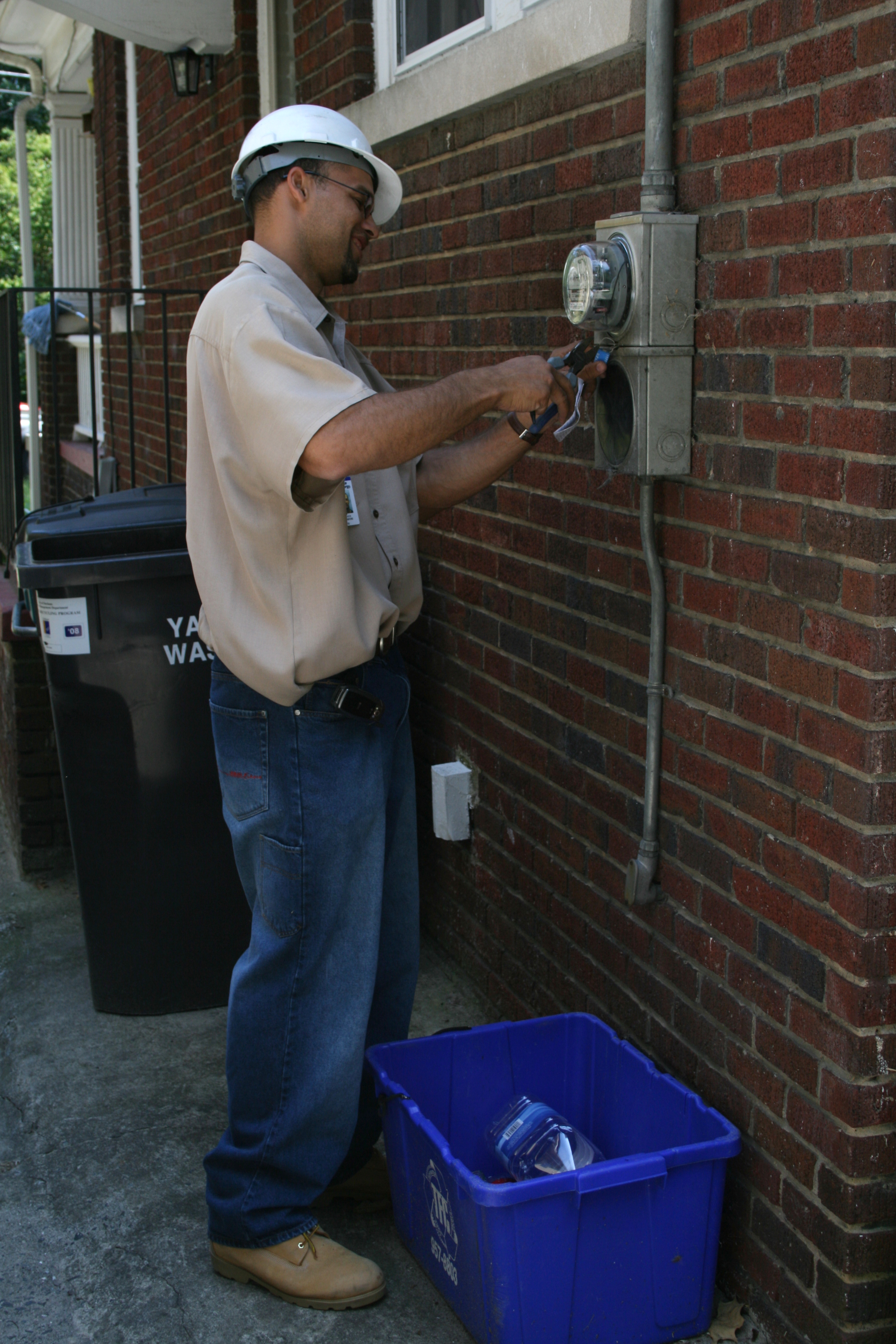 A Duke Energy technician disconnecting electricity at a residence due to nonpayment in Durham, North Carolina.